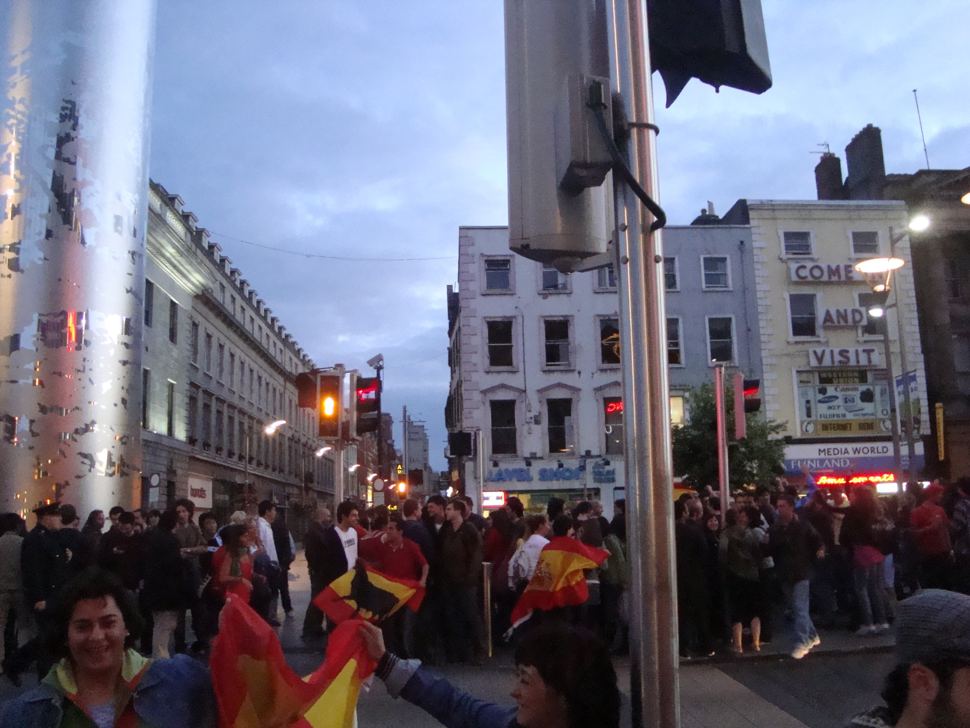 Spanish celebrations in Dublin after the victory over Germany at the final of the Euro 2008.